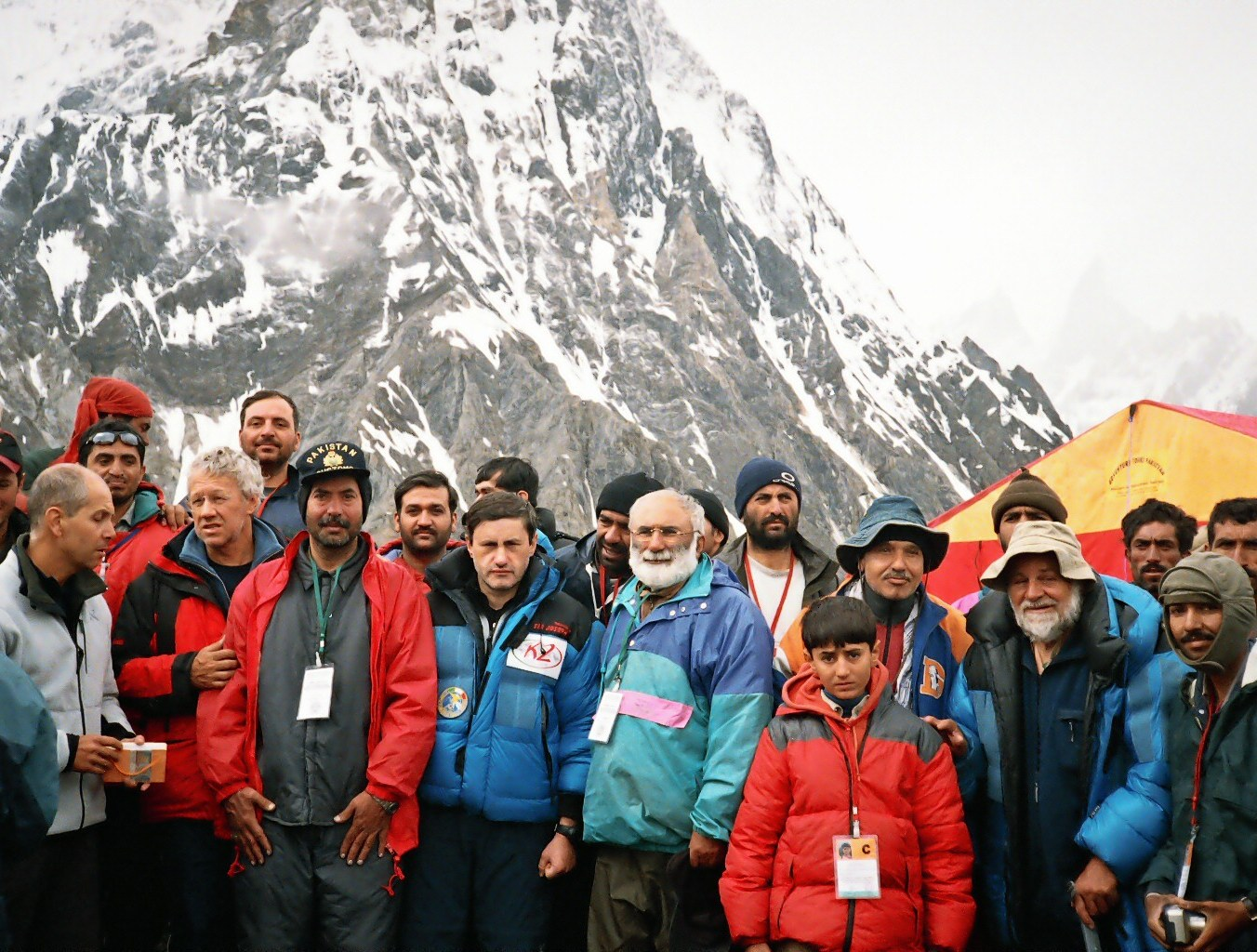 Group photograph of Chiltan Adventurers Association Balochistan headed by Hayatullah Khan Durrani & Malik Abdul Rahim Baabai in Concordia base camp K2 with Lino Lacedelli first mountaineer on earth climbed K2 mount on 31st July 1954, on the eve of the Golden Jubilee ceremony of K2 first ascent 31st July 2004, the Italian federal Minister Gianni Alemanno (Chief-de-mission) of the Italian delegate and World's first 12 year boy reached K2 Base camp Mehardil Khan Baabai are also present on the occasion. Thanks Read about and got it,-- Aslam 21:55, 14 November 2011 (UTC)